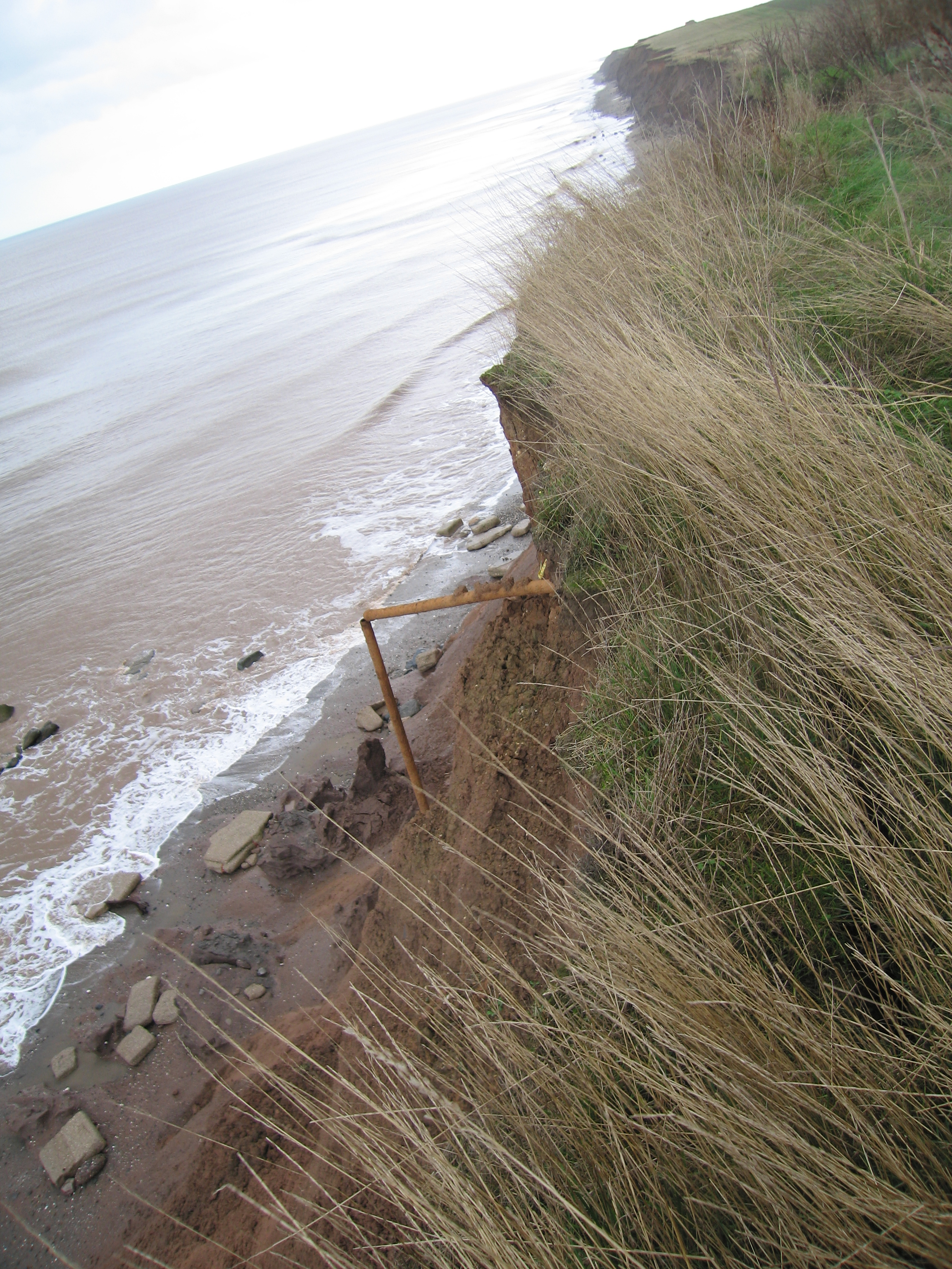 Cliffs at East Newton, East Riding of Yorkshire, England.View south.